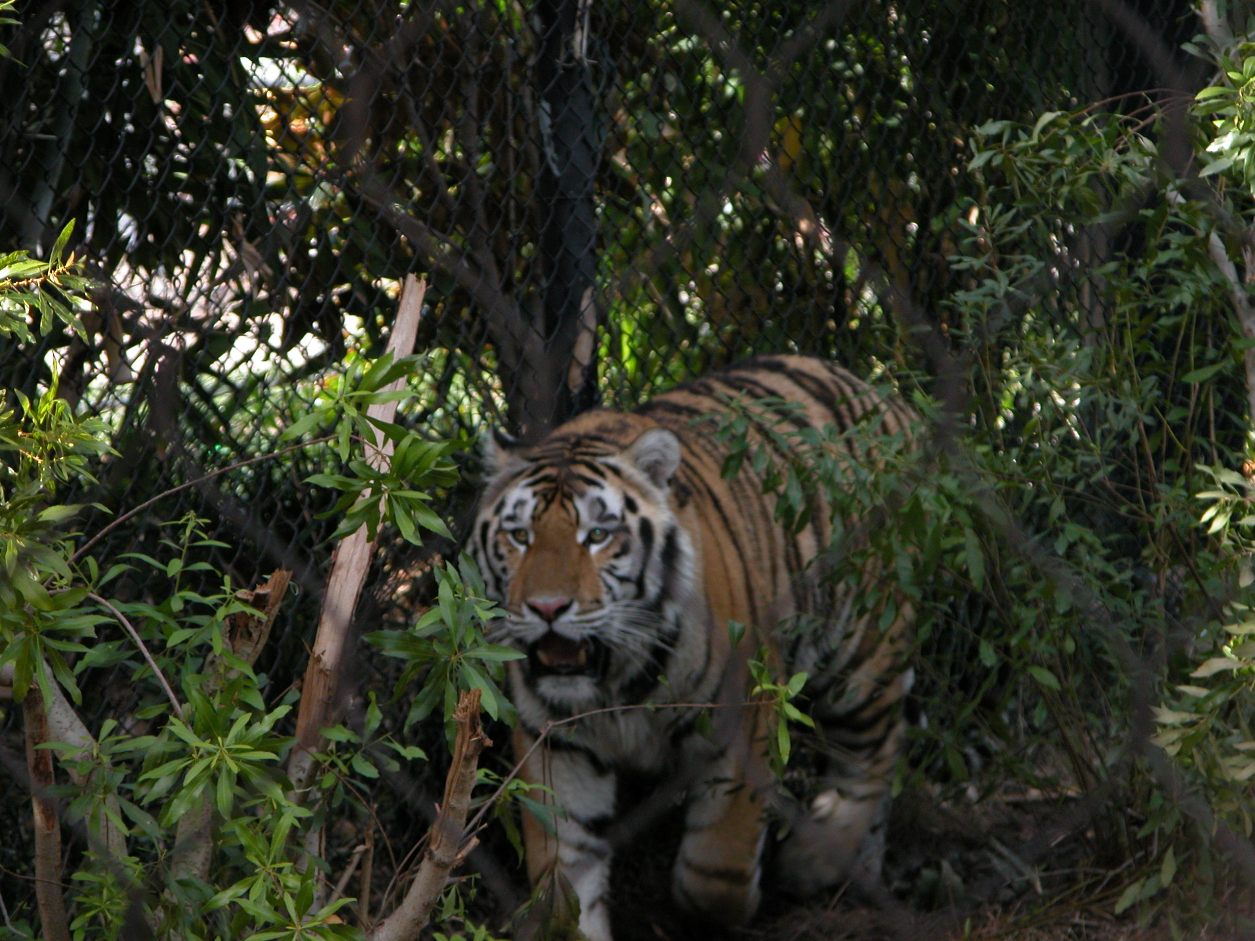 Mike the Tiger, Personal Picture